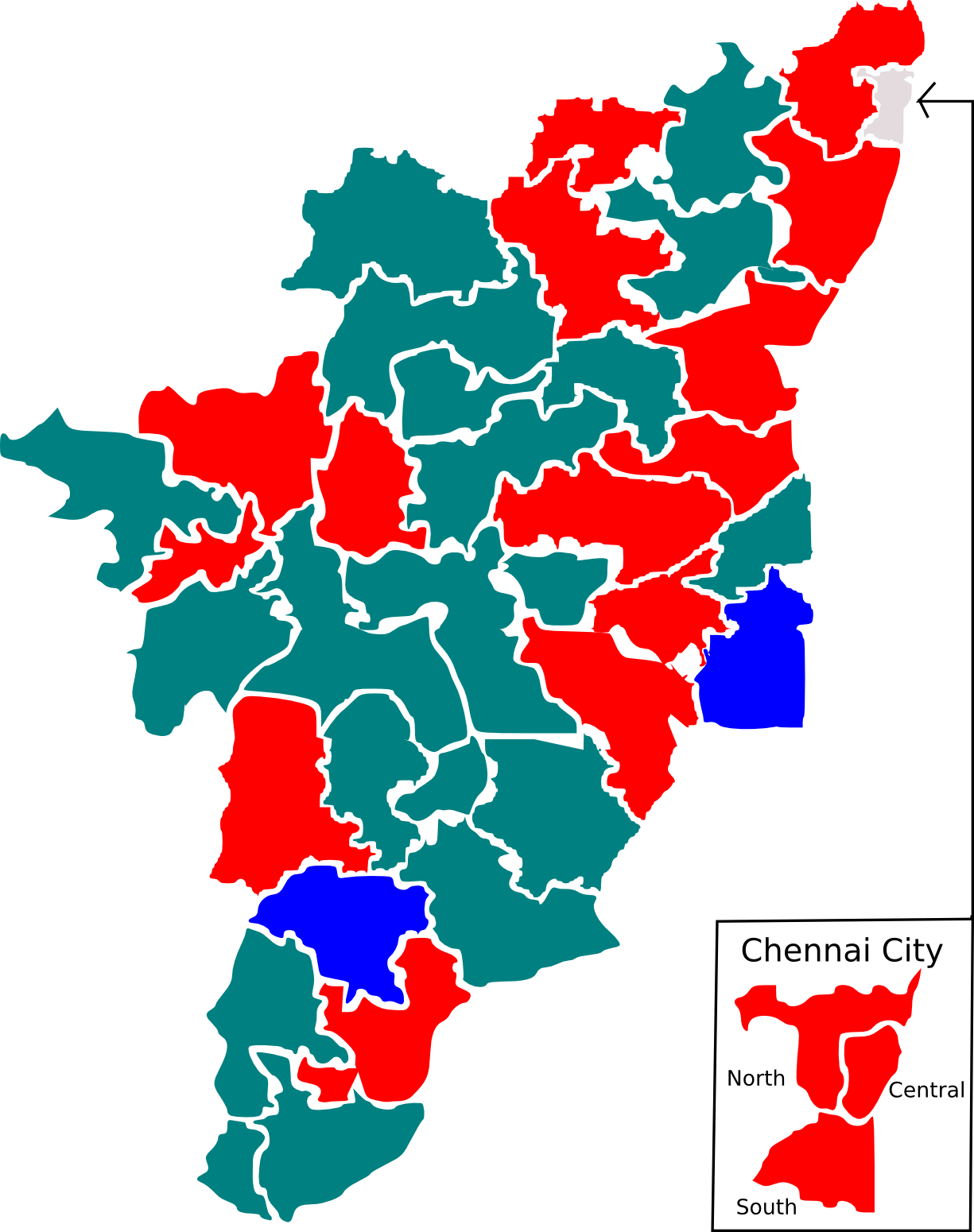 1996 Lok Sabha Election map for Tamil Nadu. Map is based on ECI drawn map. Results are based on ECI website.